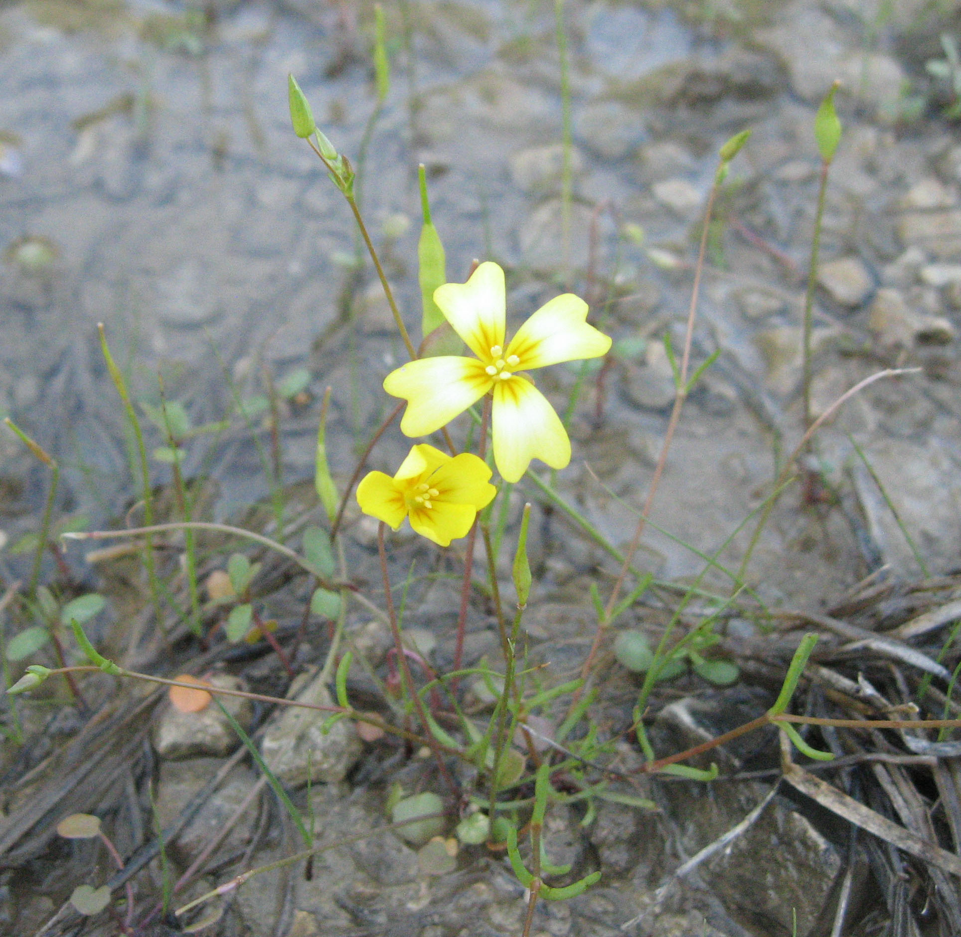 Leavenworthia stylosa at a cedar glade in Cedars of Lebanon State Park, Wilson County, Tennessee.